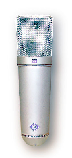 Neumann U87 microphone, silver colored manufactured in September 1971 according to Neumann. The length of the microphone is 200 mm, 56 mm in diameter and has a weight of 500 g.